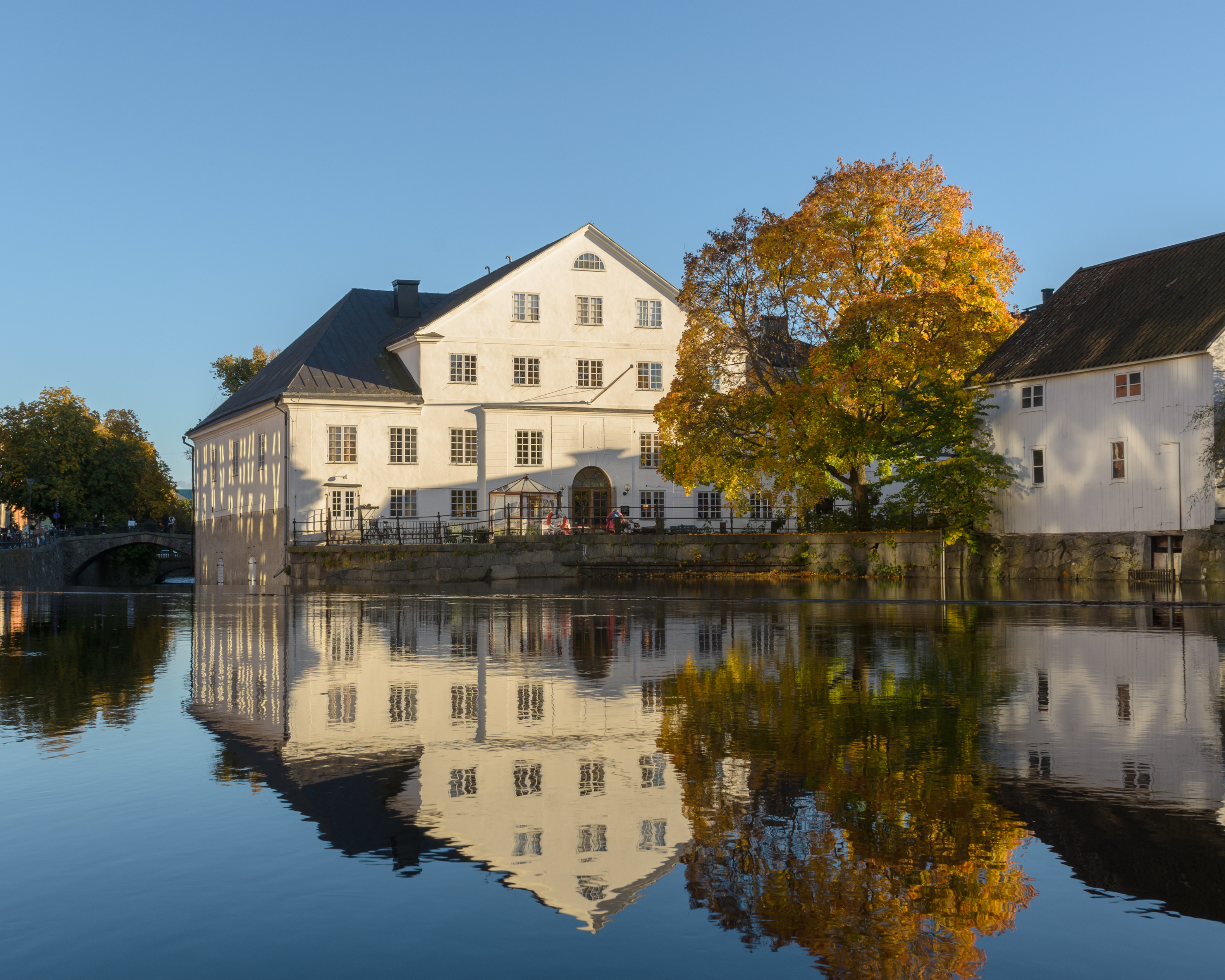 The old University mill on the Fyris River in central Uppsala. Now housing the county museum (Upplandsmuseet) of Uppsala County. The exterior of the building was used by Ingmar Bergman for the bishop's house in the film Fanny and Alexander (1982).